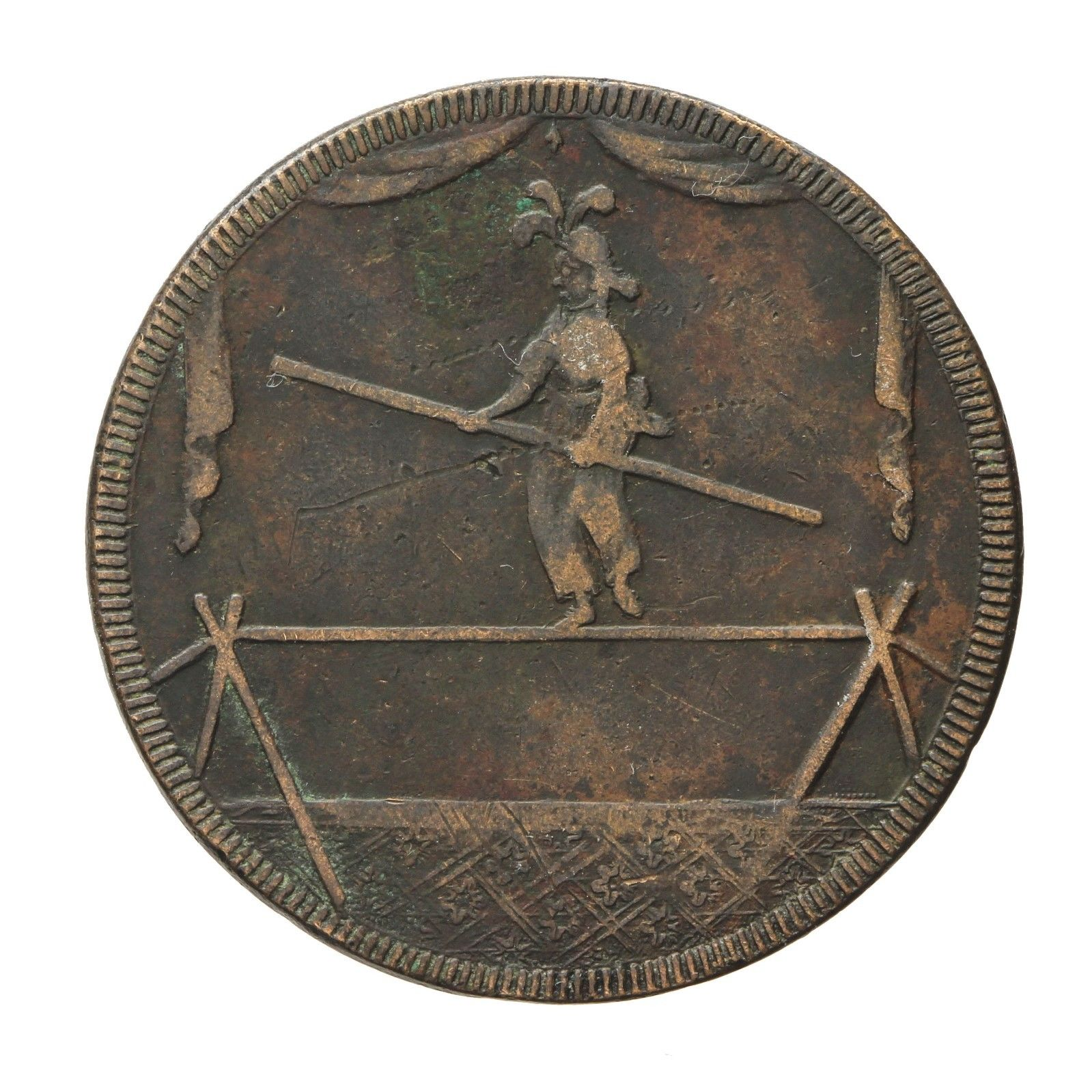 Bannister Circus/Troupe coin in guess 1810